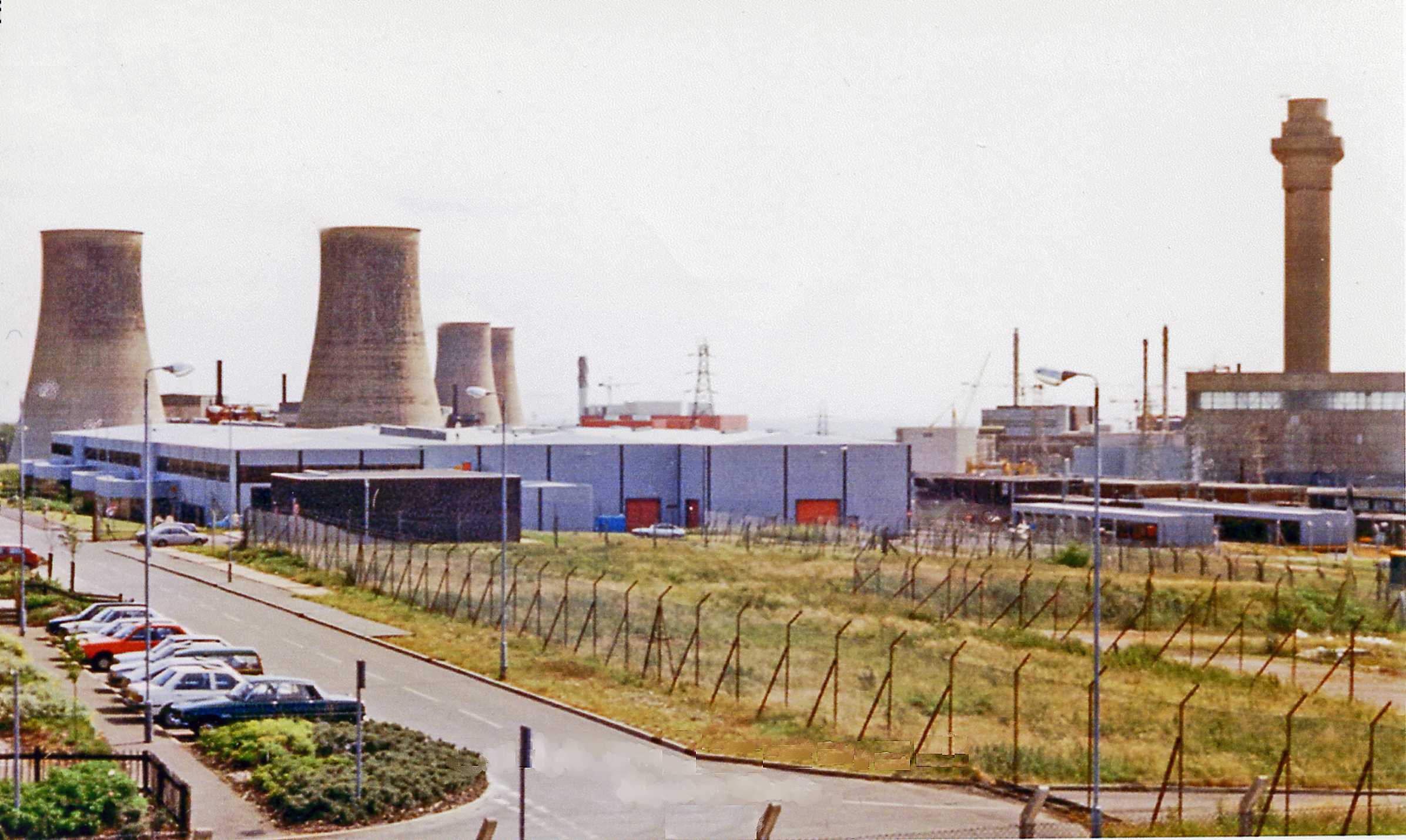 General view of Sellafield Nuclear Plant, 1986. As with NY0304 : Sellafield Nuclear Reprocessing Facility, 1986, all has changed a great deal in the ensuing 28 years and I am not at all certain of precise location and directions. [Help would be appreciated, please?] The cooling towers of the then Calder Hall Nuclear Power Station are on the left and the reactor buildings and 400 ft. tower of 1950 on the right.